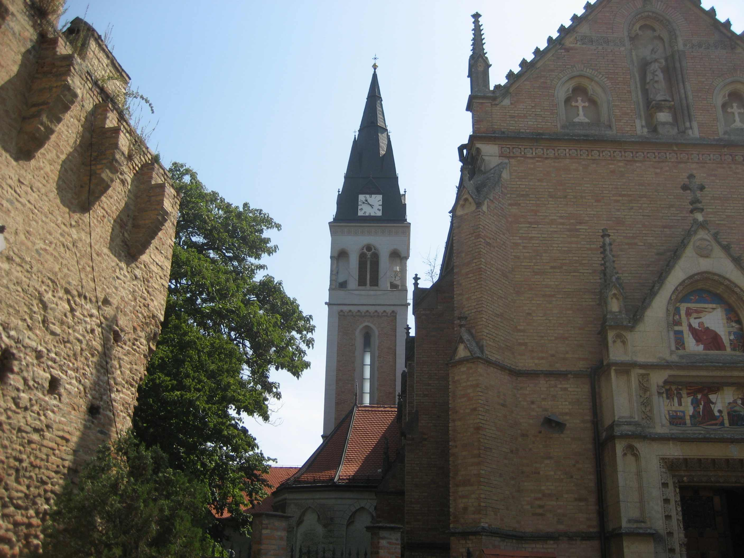 Ilok, Capistran Church